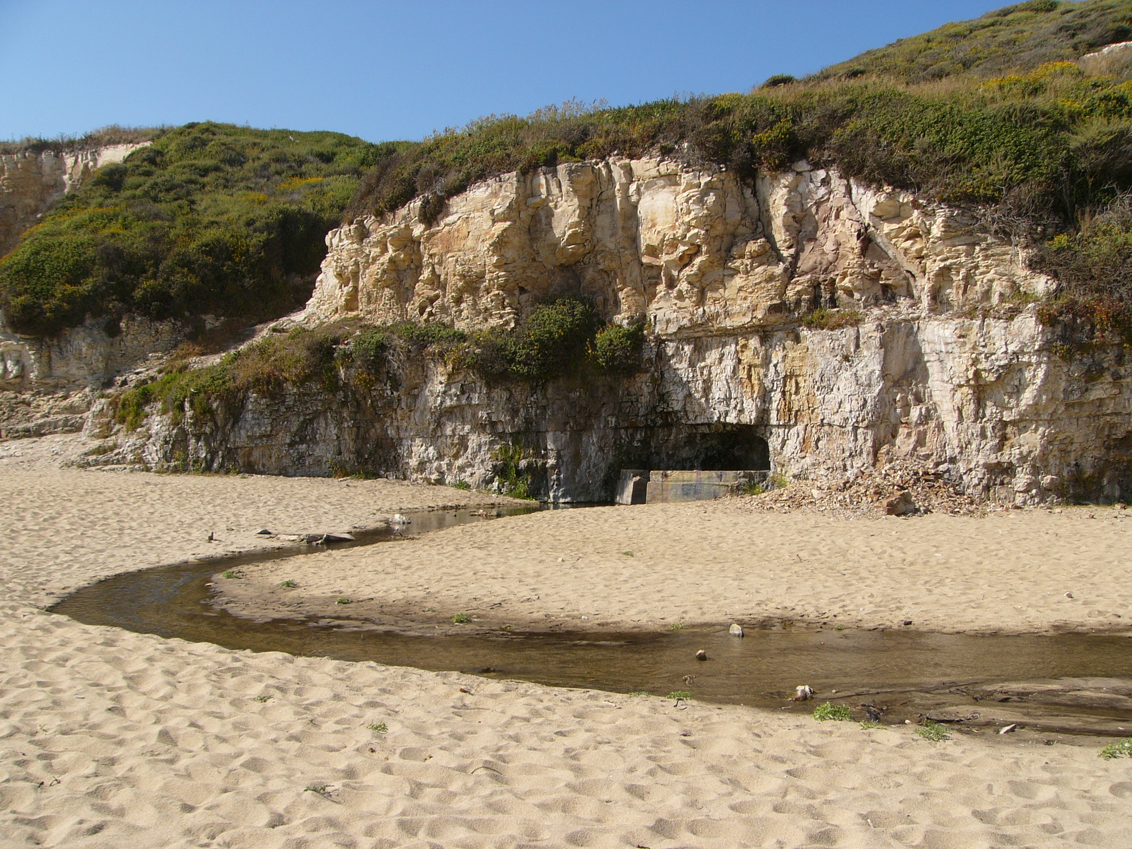 Ocean Shore Railroad, Davenport: "The third tunnel we visited, on Bonny Doon Beach. Much smaller than the others, the roof was just high enough to stand up in."